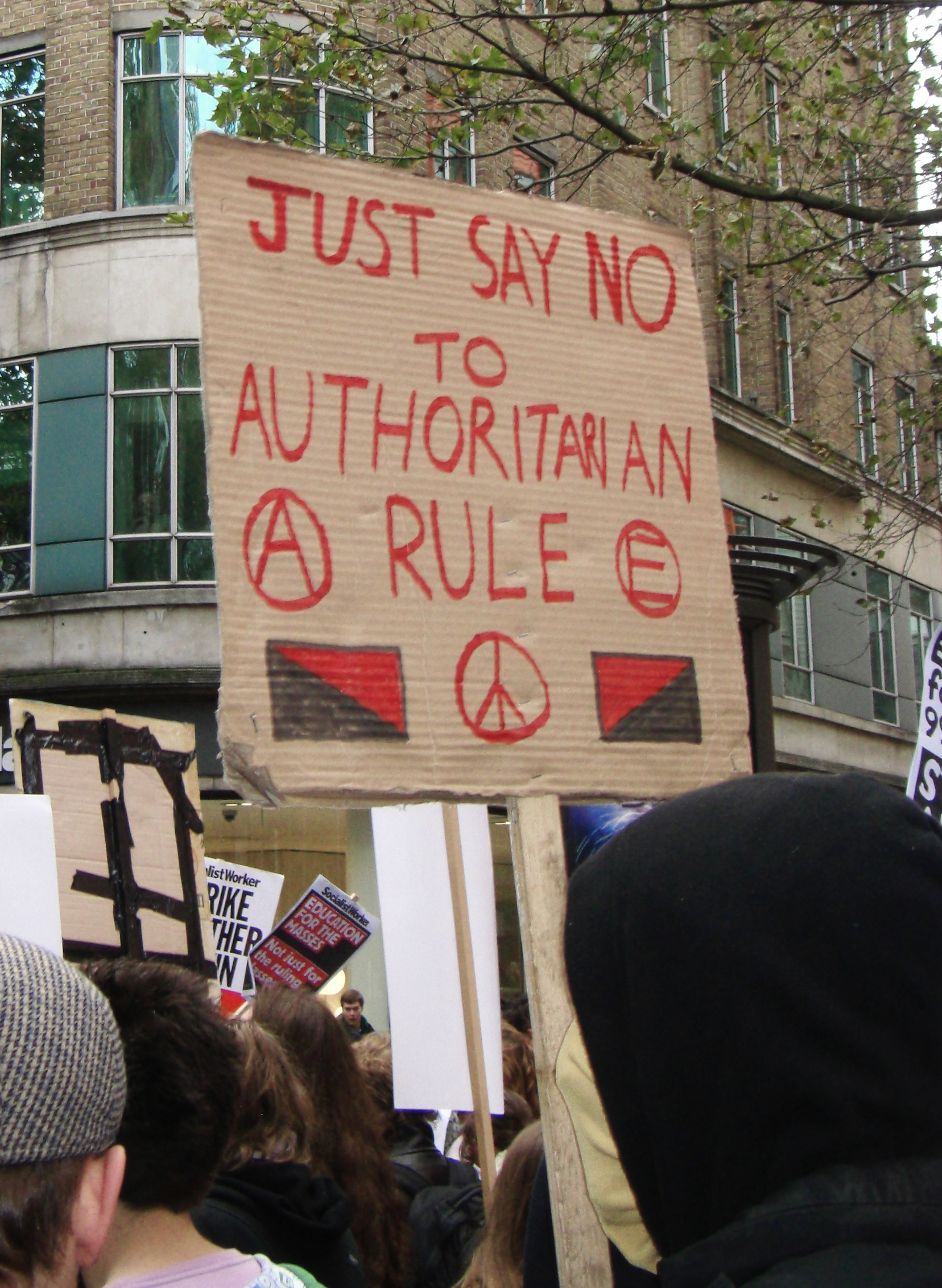 An anarchist placard being carried at the protests against the U.K. government's funding cuts and privatisation of the British education system, central London, Wednesday 09 November 2011.